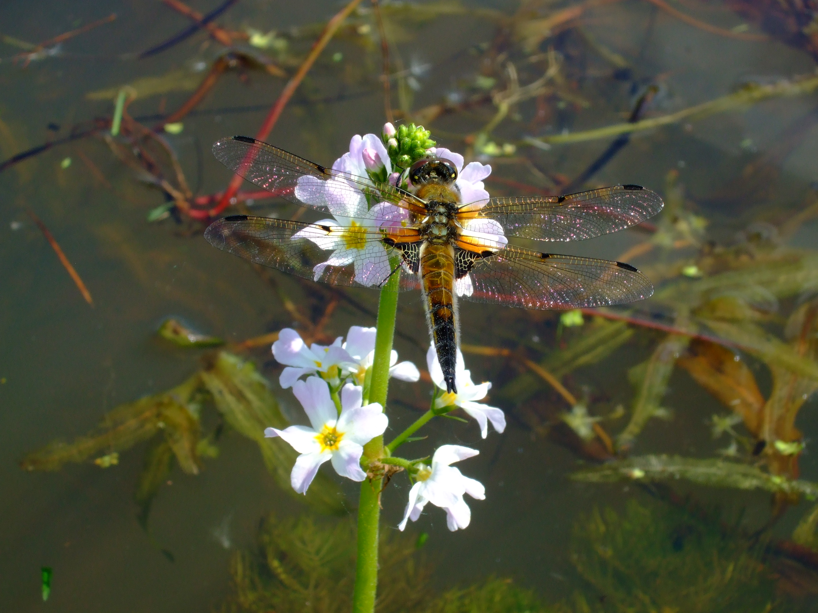 Four-spotted Chaser male keeping his watch from Water Violet flowers in Kirchwerder, Hamburg.